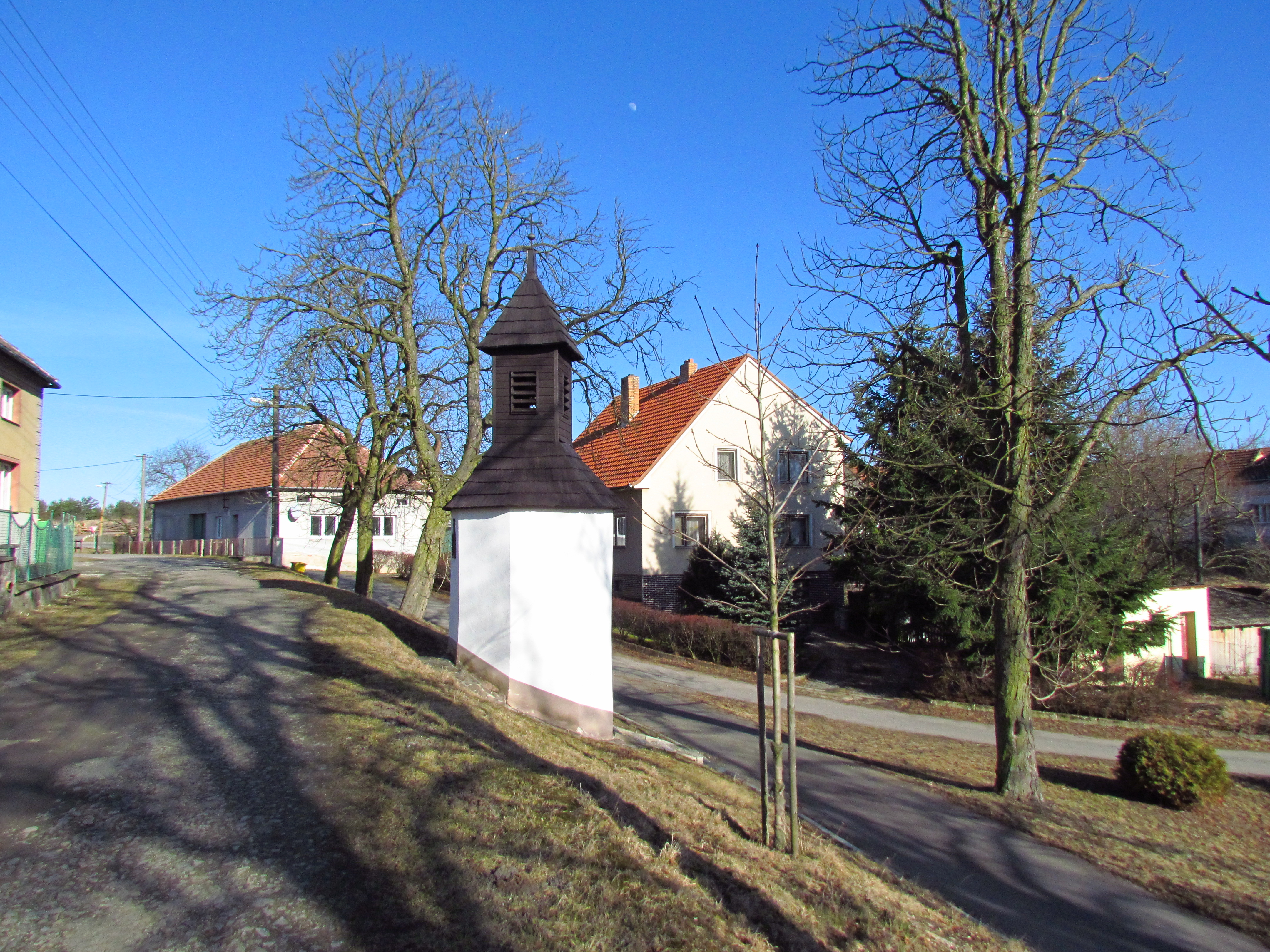 Center with Chapel in Popůvky, Třebíč District.